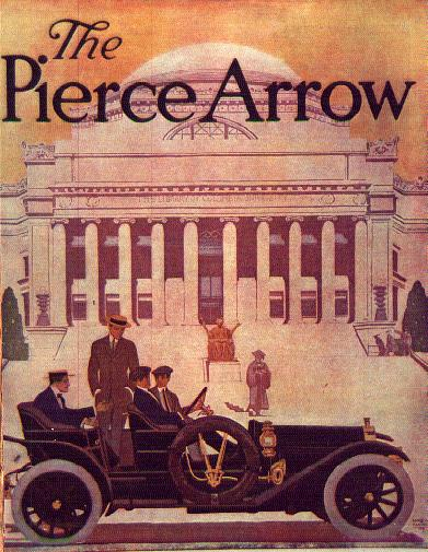 1909 advertisement for Pierce-Arrow automobile; artwork by Louis D. Fancher.